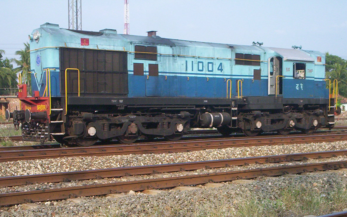 Indian WDM7 class locomotive Nº 11004 (Diesel Locomotive Works, 1987/88)